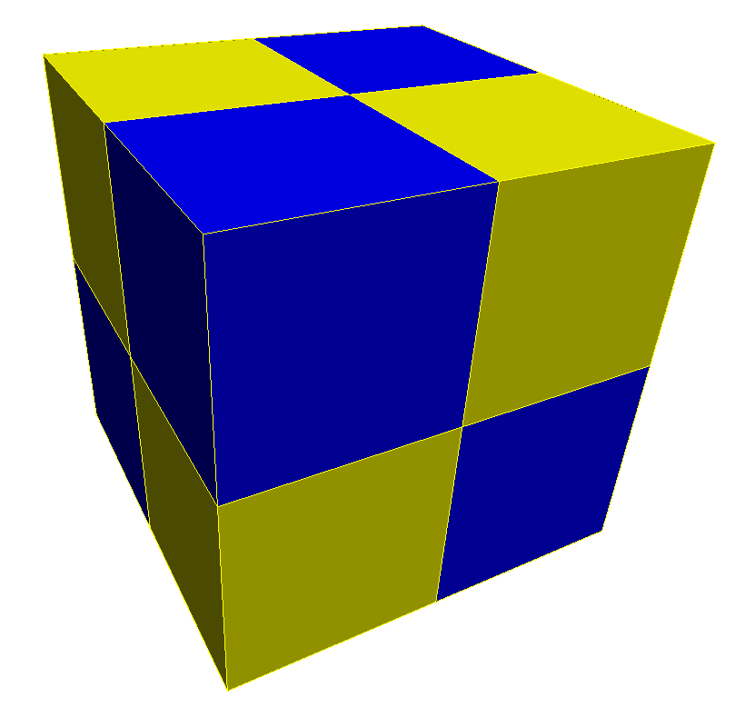 cubic_honeycomb